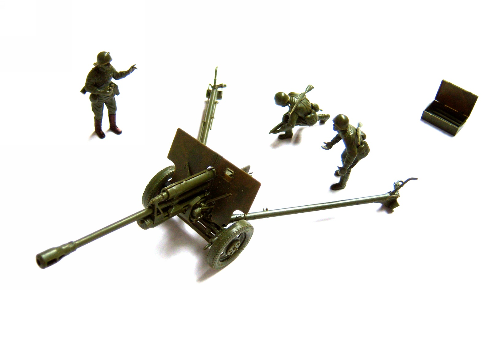 Non-painted model of ZiS-3 gun with crew, produced by Zvezda company, Russia